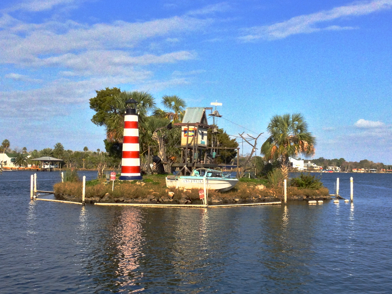 View of the Soutwest side of Monkey Island on Homosassa River, Florida USA